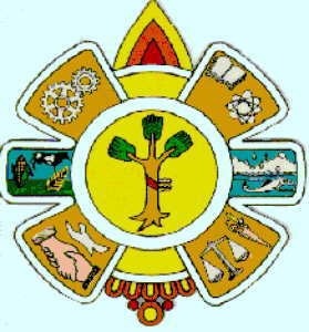 Ocotlan coat of arms